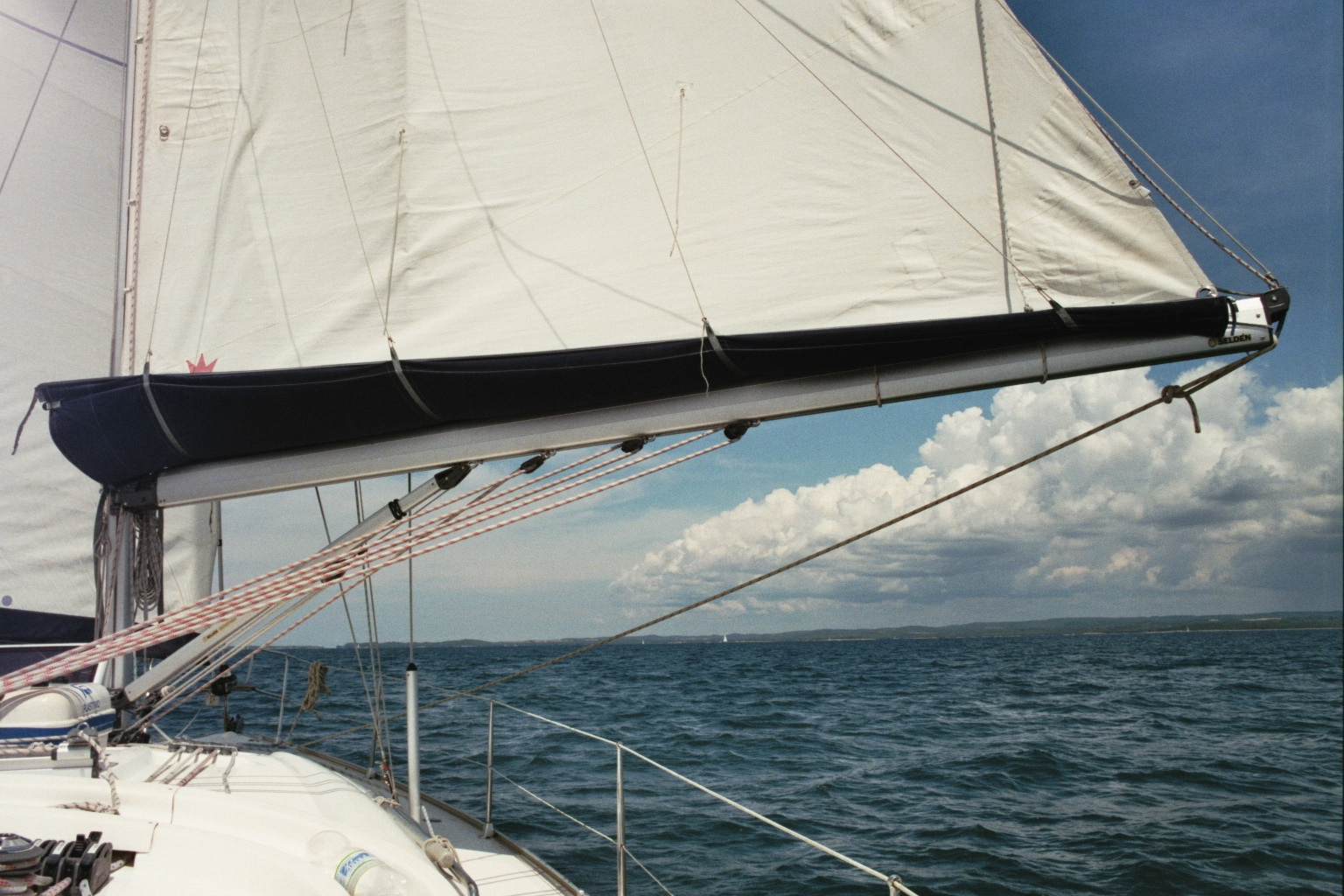 Preventer of main sail